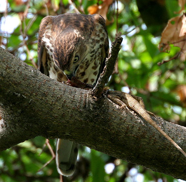 Shikra Accipiter badius in Hyderabad, India.